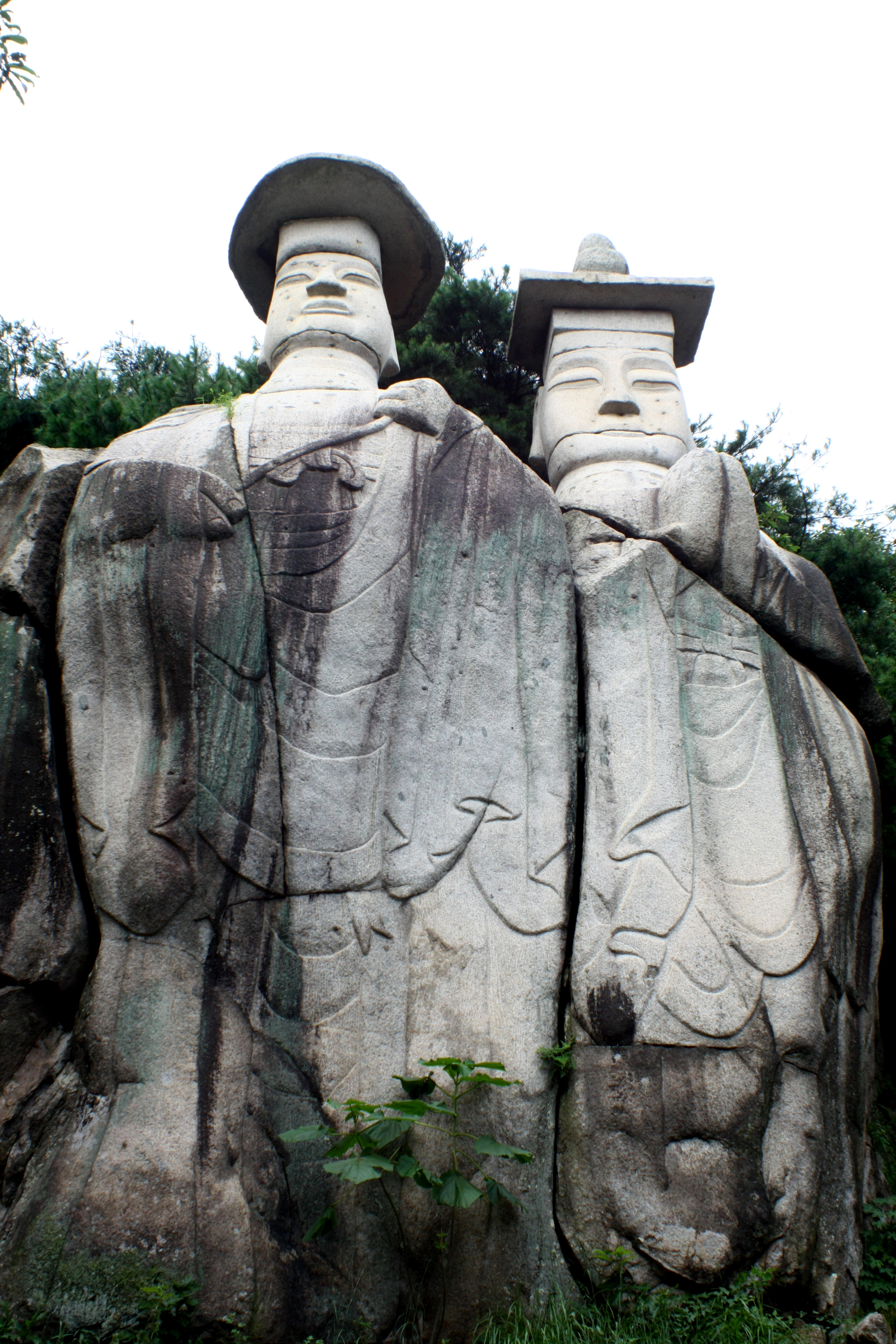 Two Standing Buddha Carved on the Rock in Yongmi-ri, Paju, Korea